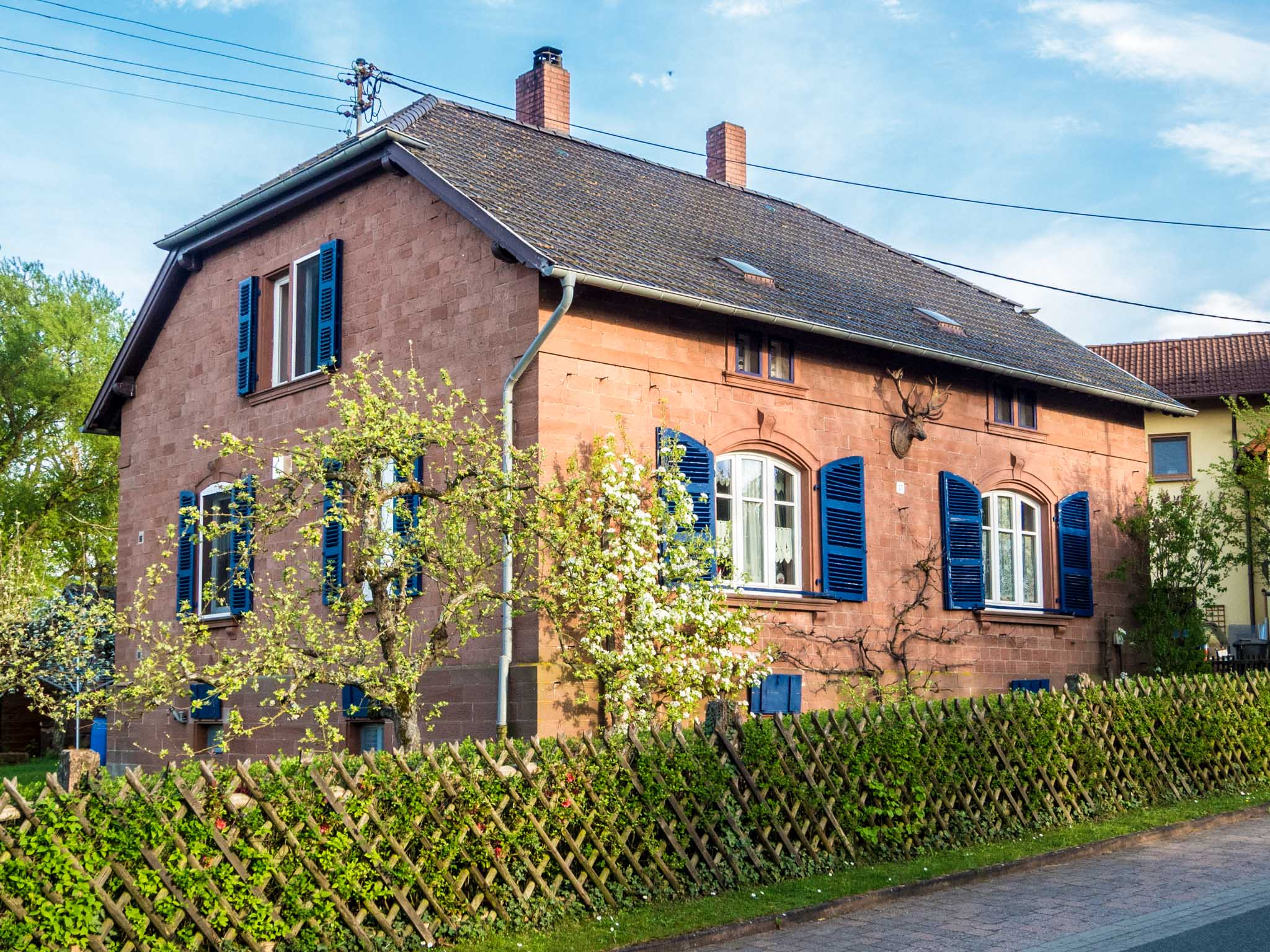 Potzbach Forsthaus Hauptstraße 37